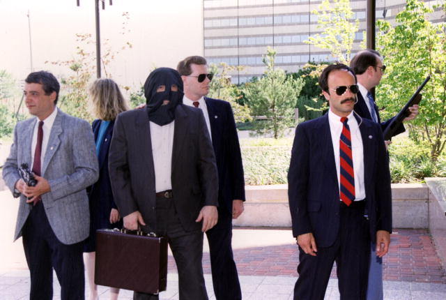 A protected witness guarded by U.S. Marshals armed with a machine pistol and a shotgun.